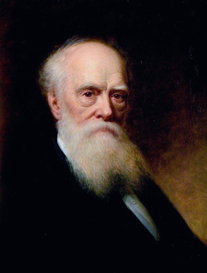 Self portrait oil on canvas 59.3 x 46.5 cm